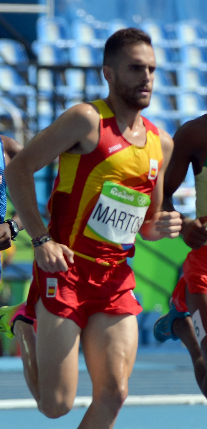 Sebastián Martosin the first of three qualifying heats in the men's 3,000-meter steeplechase on Aug. 15 at the 2016 Rio Olympic Games in Rio de Janeiro.